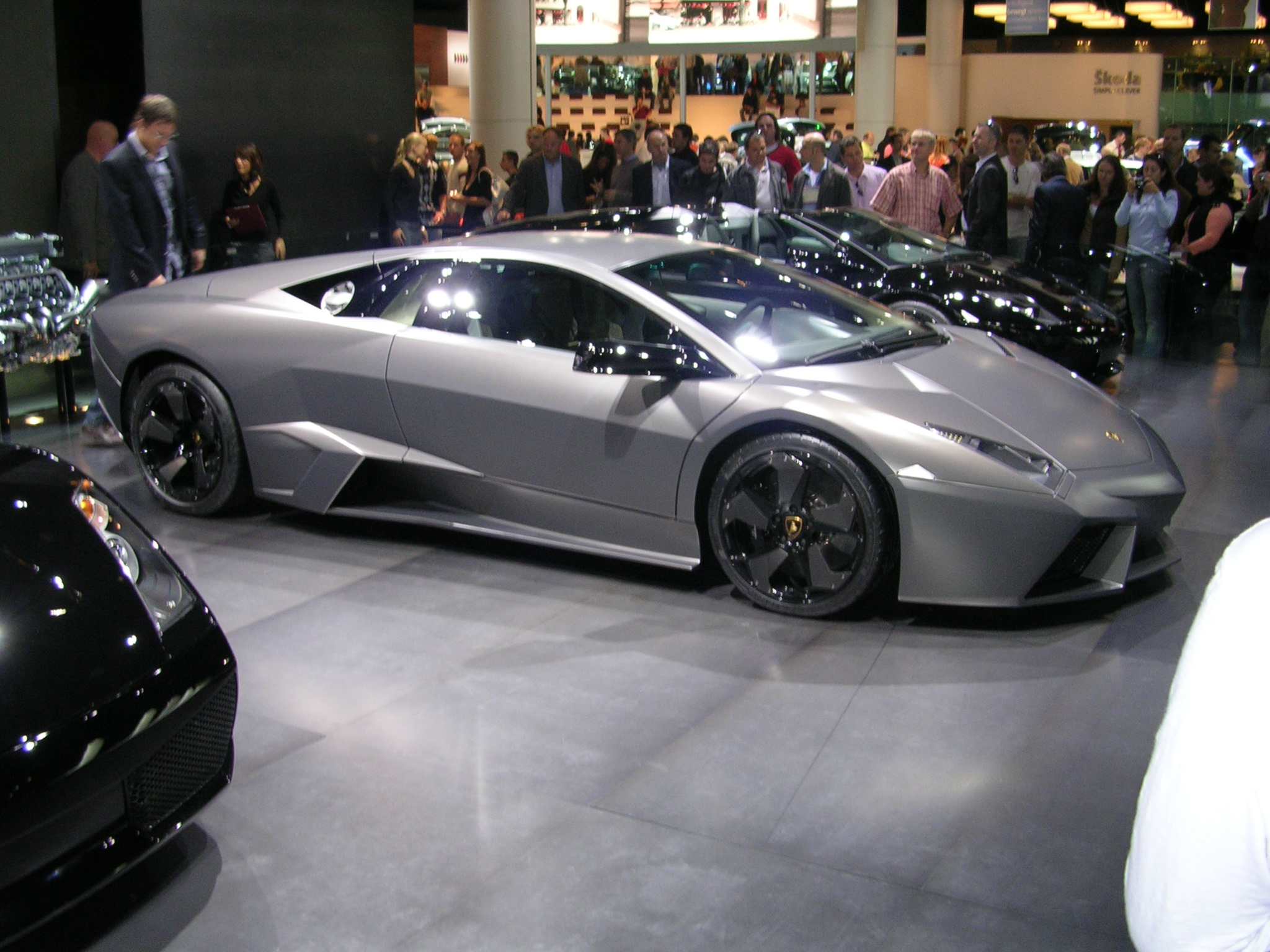 New limited Lamborghini Reventón